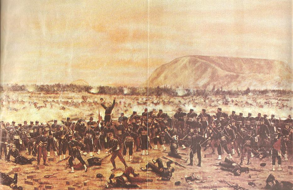 "El Tercer Reducto" by Juan Lepiani, 1894, Museo Histórico Militar del Perú Real Felipe - Callao